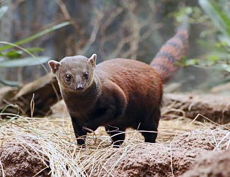 Ring-tailed Mongoose